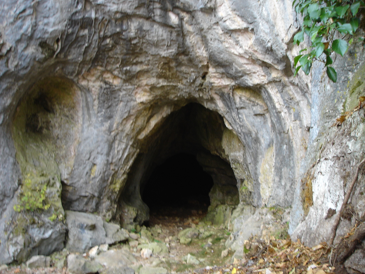 Ubavica (Beauty) cave, near the village of Gorna Gjonovica in Gostivar, Macedonia